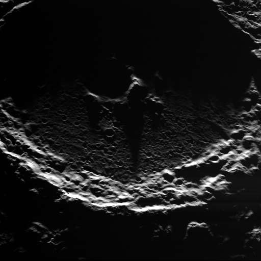 Oblique view of Prokofiev crater on Mercury. MESSENGER Wide Angle Camera image. North is at bottom. Width is approximately 85.5 km at bottom. Emission Angle: 38.2 Incidence Angle: 88.5 Latitude: 86.0 Longitude: 69.9 Phase Angle: 126.2